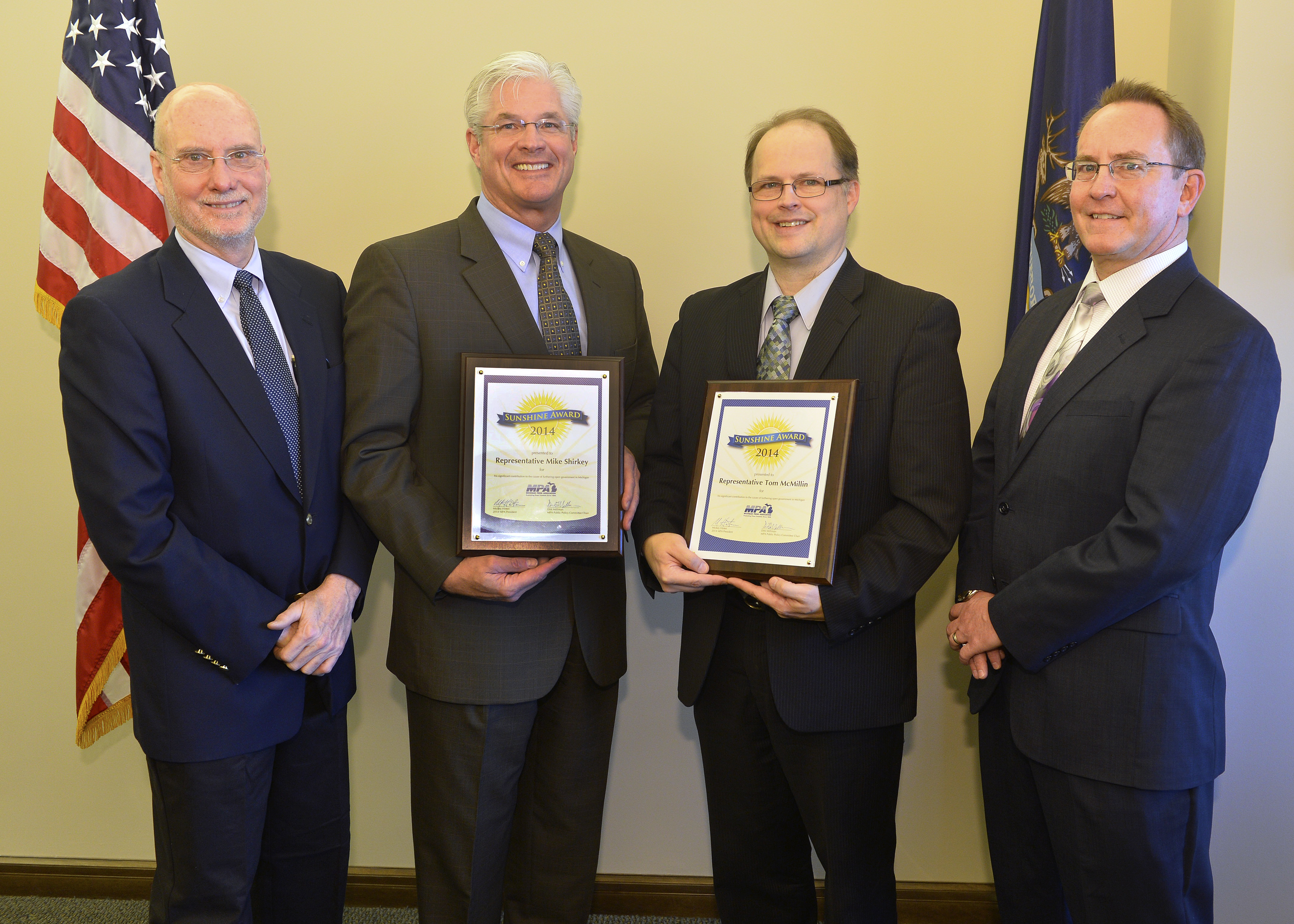 Mike Shirkey and Tom McMillin receiving Sunshine Award.